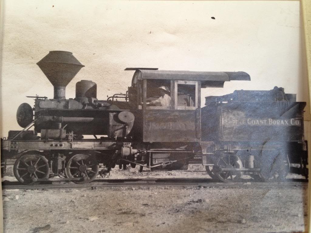 Two-truck Heisler locomotive #2 "Francis" was built at the Stearns Manufacturing Locomotive Works of Erie, Pennsylvania in January 1899 with the plans of Charles L. Heisler with the build number of #1026, and worked for the following railroads: Borate and Daggett Railroad; Daggett, California Death Valley Railroad; Death Valley Junction, California Nevada Short Line Railway; Rochester, Nevada Terry Lumber Company; Round Mountain, California Red River Lumber Company; Round Mountain, California The engine's current state is not known since it was lost after 1925.